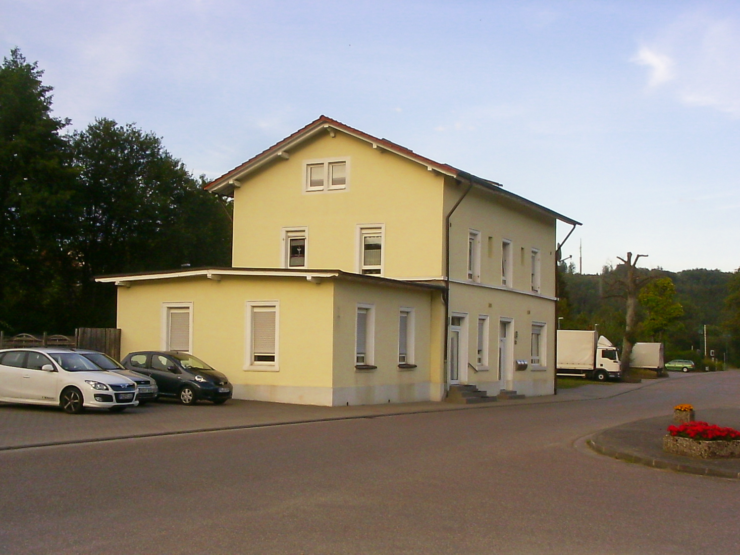 Thaleischweiler-Fröschen train station